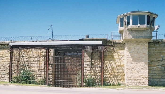 East gate of the Joliet Prison. This is the same gate that was featured in The Blues Brothers.